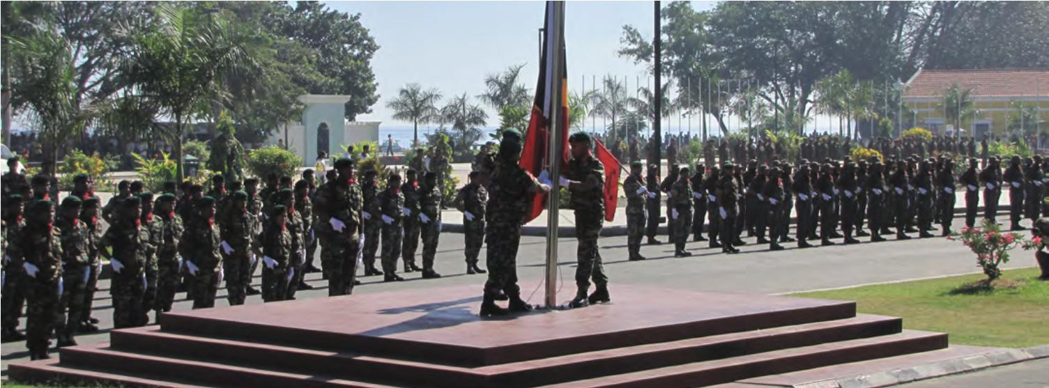 F-FDTL soldiers raise the flags during their Falantil Day celebration